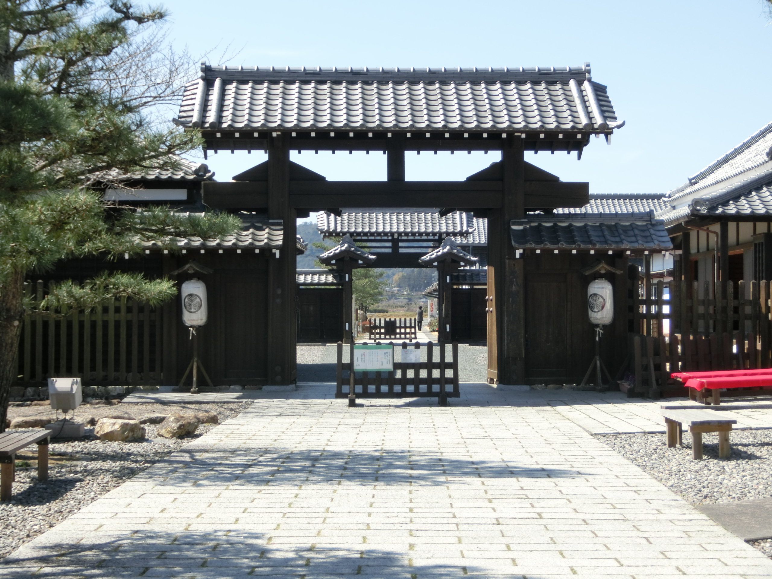 Kiga Sekisho